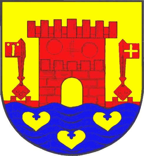 Coat of arms of the municipality Schwabstedt in Schleswig-Holstein, Germany.